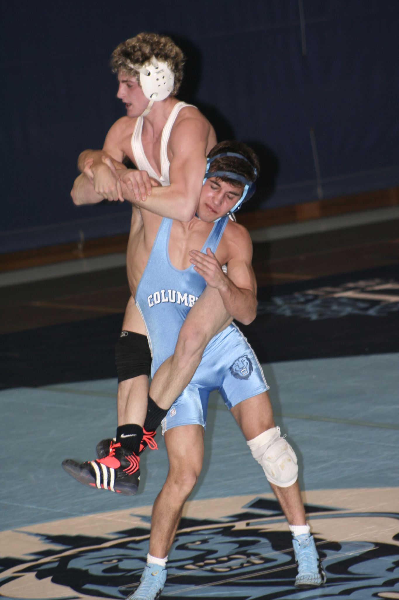 Two college students wrestling (collegiate, scholastic, or folkstyle) in the United States. Originally uploaded by Wikiman86 on the English Wikipedia project at